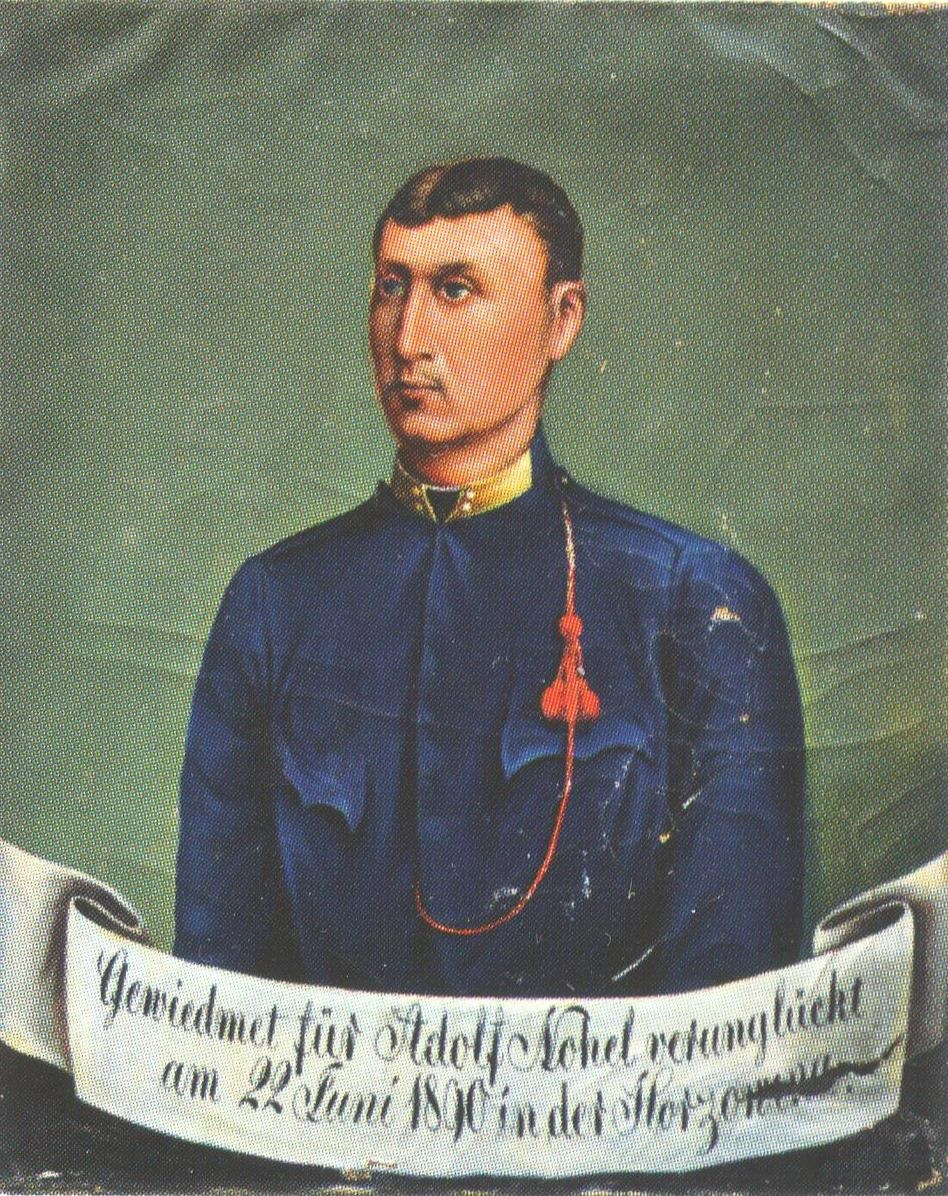 Portrait of Adolf Nohel by unknown painter from 1892 in the Nohel Chapel, Studénka-Butovice